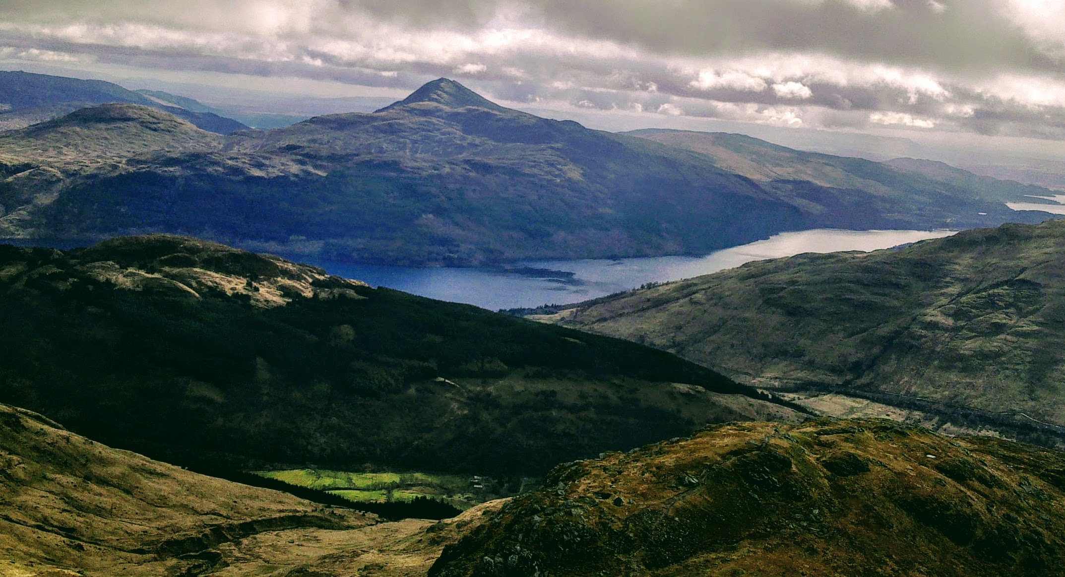 Ben Lomond above Loch Lomond, as seen from the slopes of Beinn Narnain. Taken in April 2017